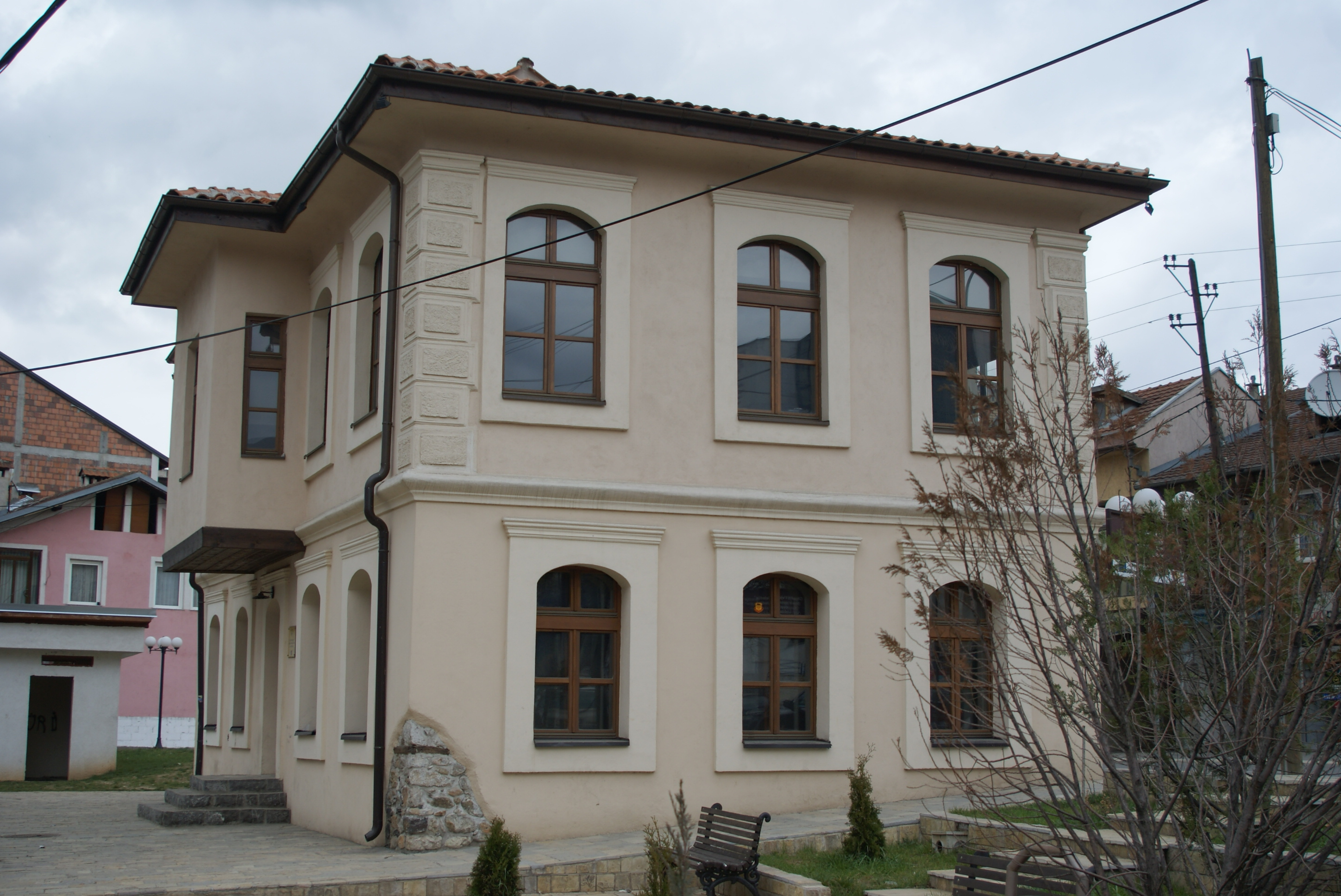 Beledija